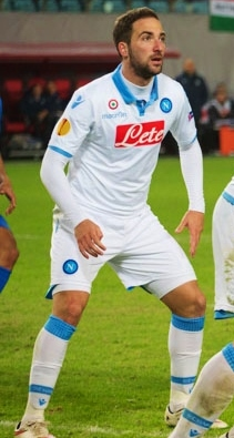 Gonzalo Higuaín